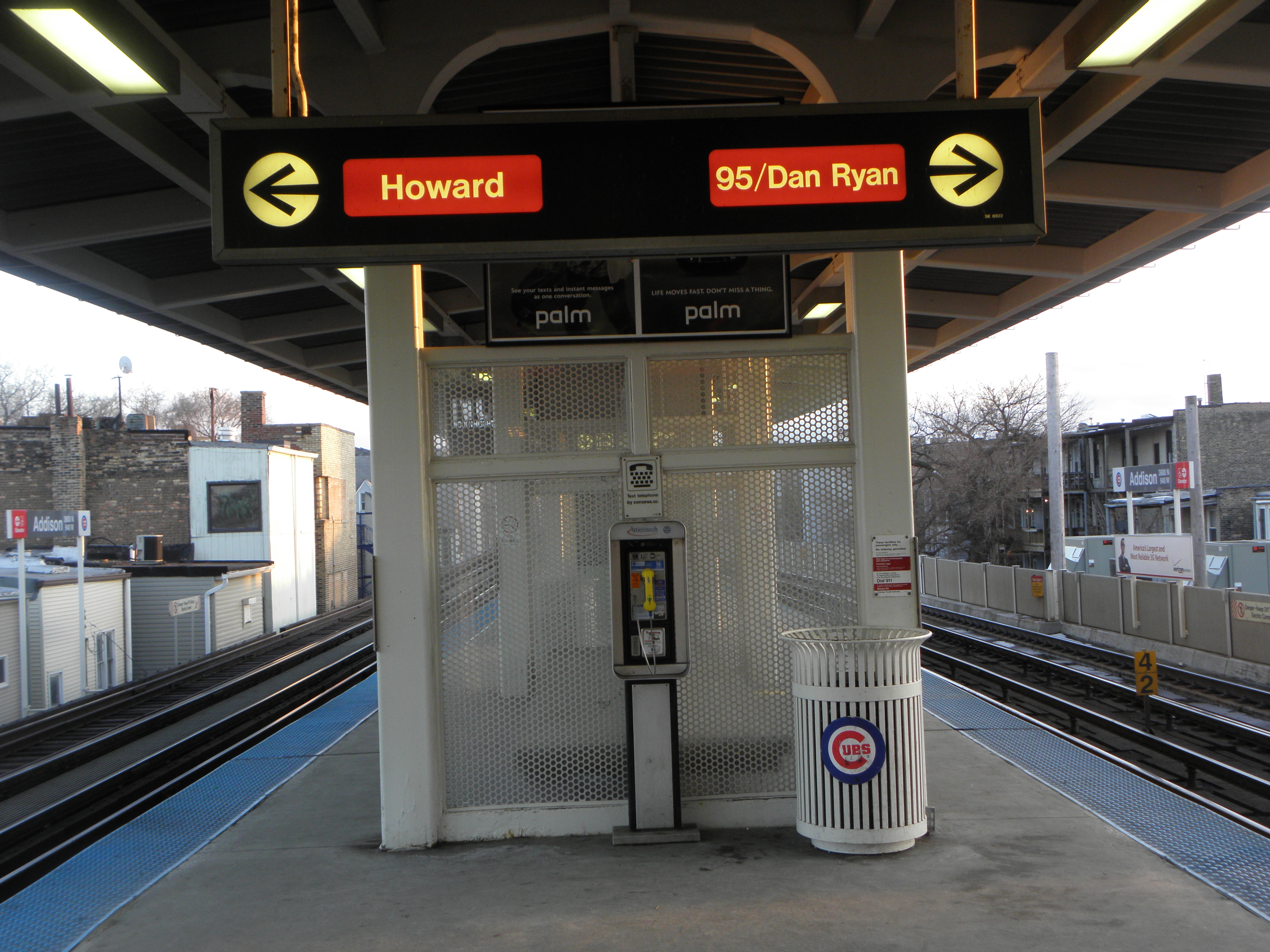 The red line runs from Howard at the extreme north end of the city to 95th Street which is as far as it goes on the South side. It goes underground through the Loop area from Clyborne North to about Roosevelt station on the south side. This is Addison station which via the CTA is usually the most sensible way to get to a Cubs game if you live in the North Suburbs.